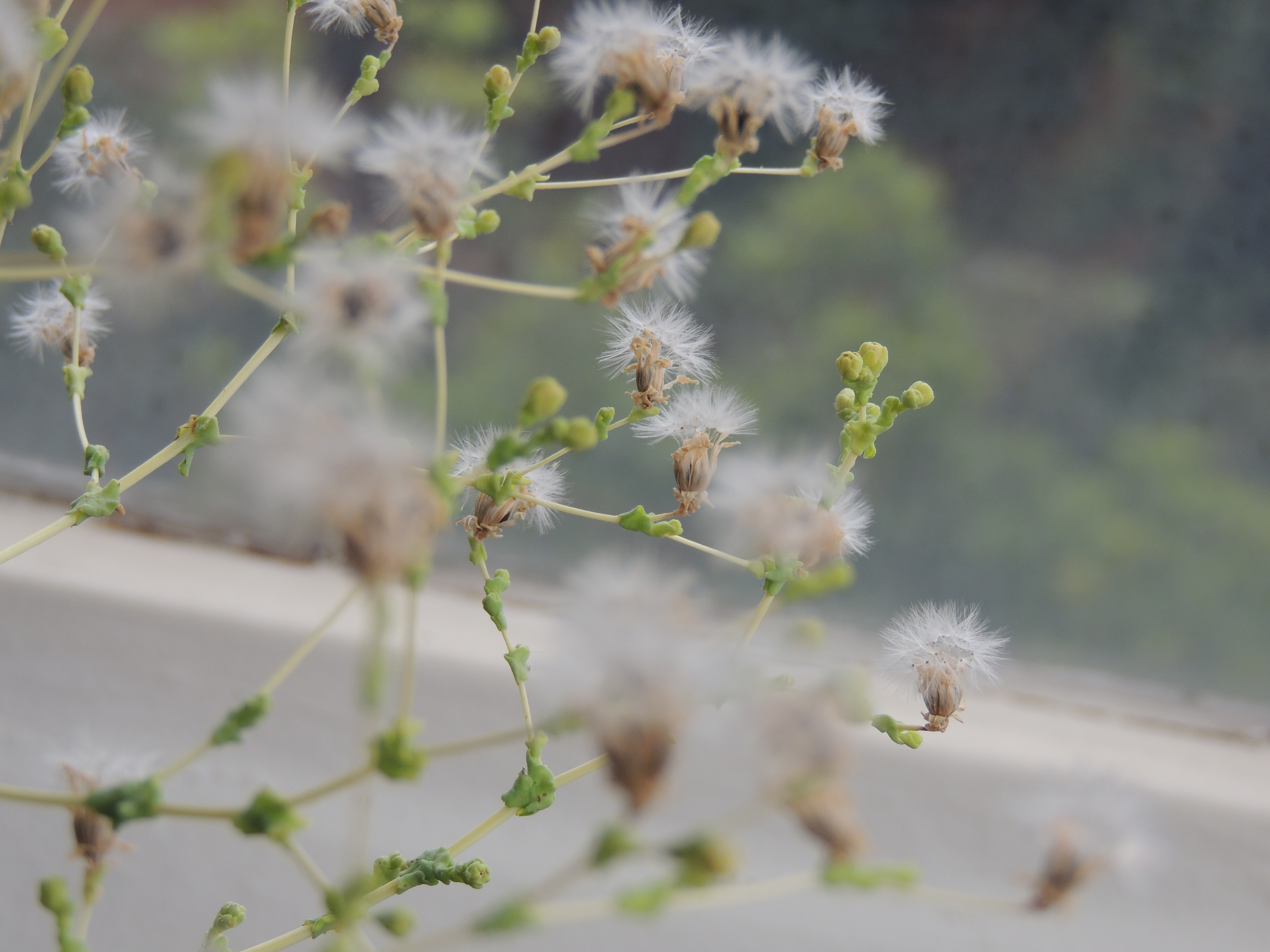 Picture of a lettuce plant which has grown many fruits.